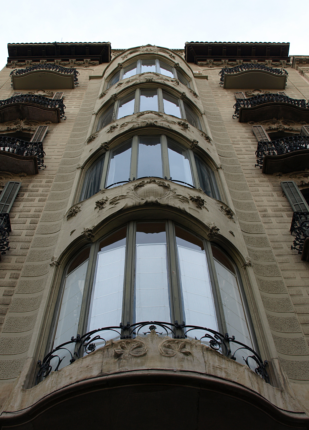 Casa Fargas - Catalan Modernisme (1907 - 1909, Enric Sagnier)